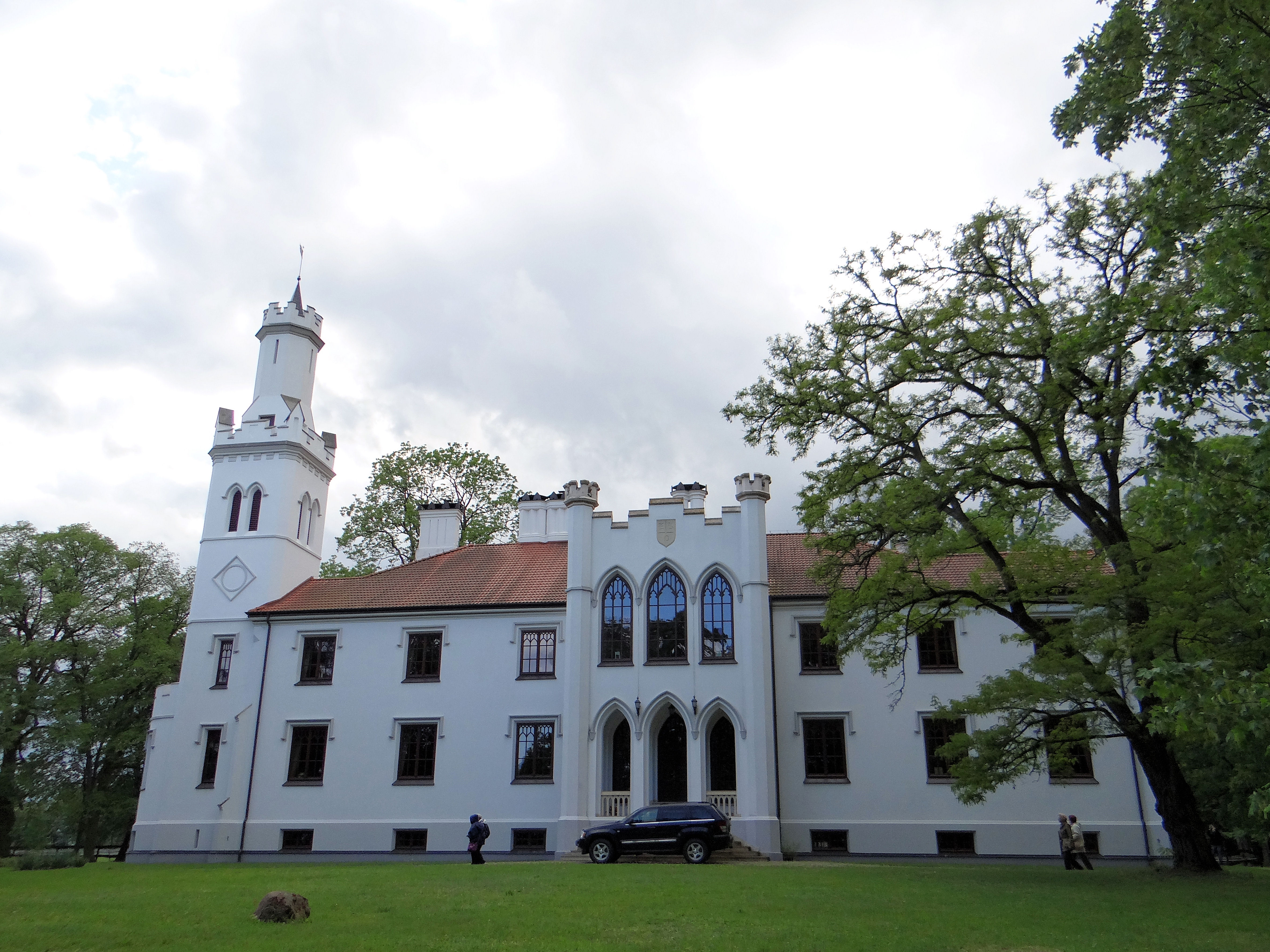 Manor house in Chrcynno